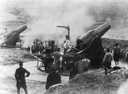 Japanese artillery shells Port Arthur during the siege of the city during the Russo-Japanese war.